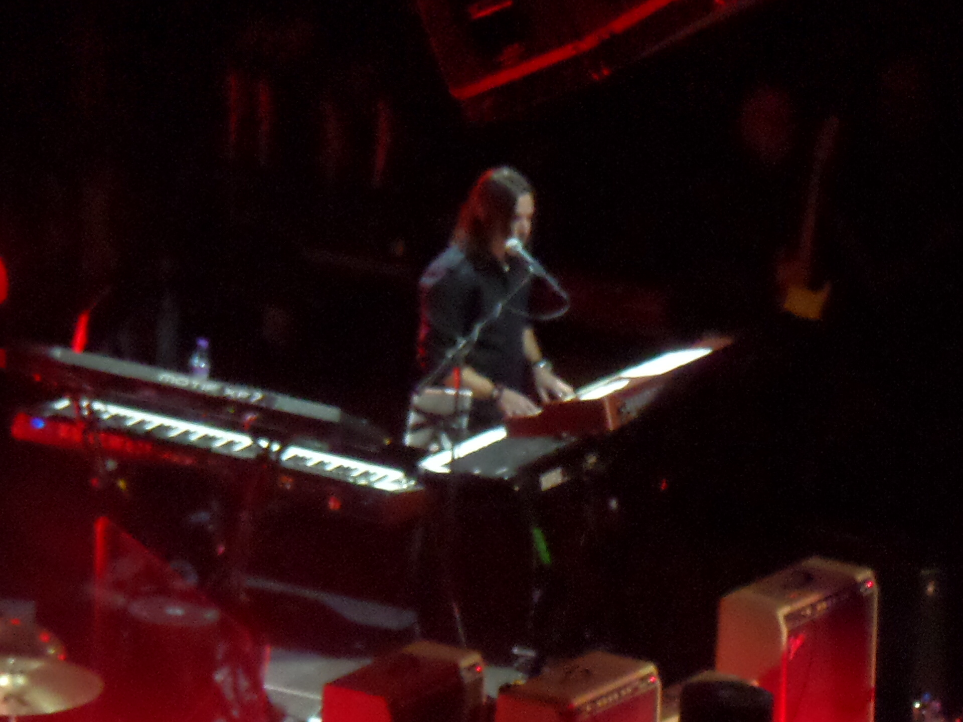 The Who Manchester Arena Dec. 13, 2014 Loren Gold (1st Keyboardist for The Who)